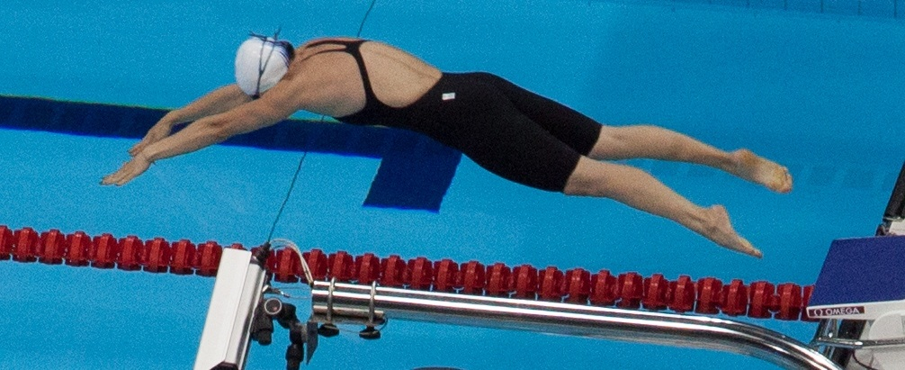 Natali Pronina from Azerbaijan at the 2012 Summer Paralympics – Women's 400 metre freestyle S12 - start of the final.jpg.